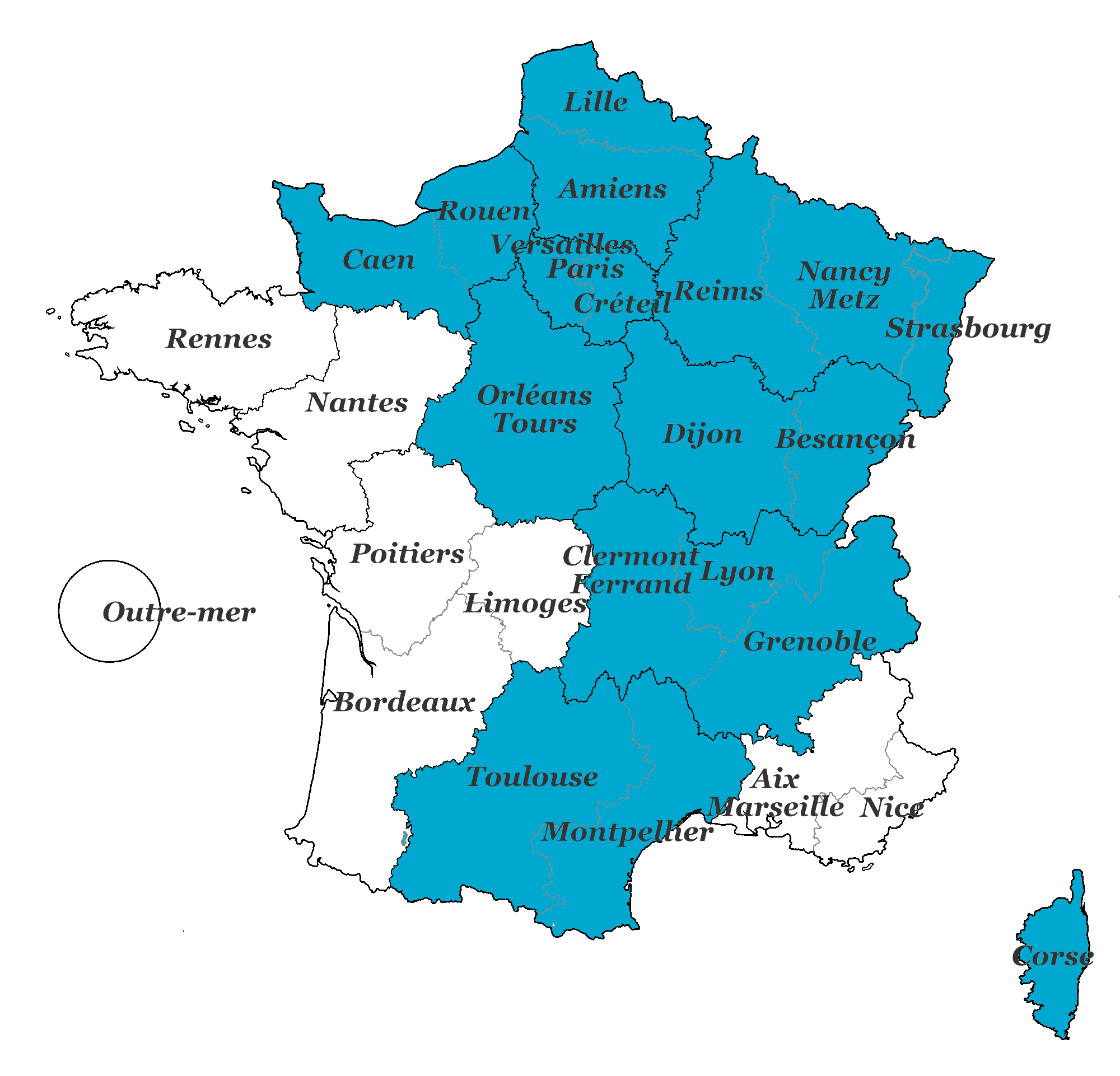 French Academies using Qwant Junior as the default search engine for the pupils.